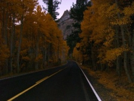 Fall Colors